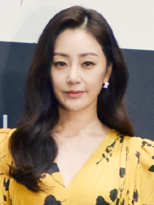 Oh Na-ra, Korean actress, in December 2019